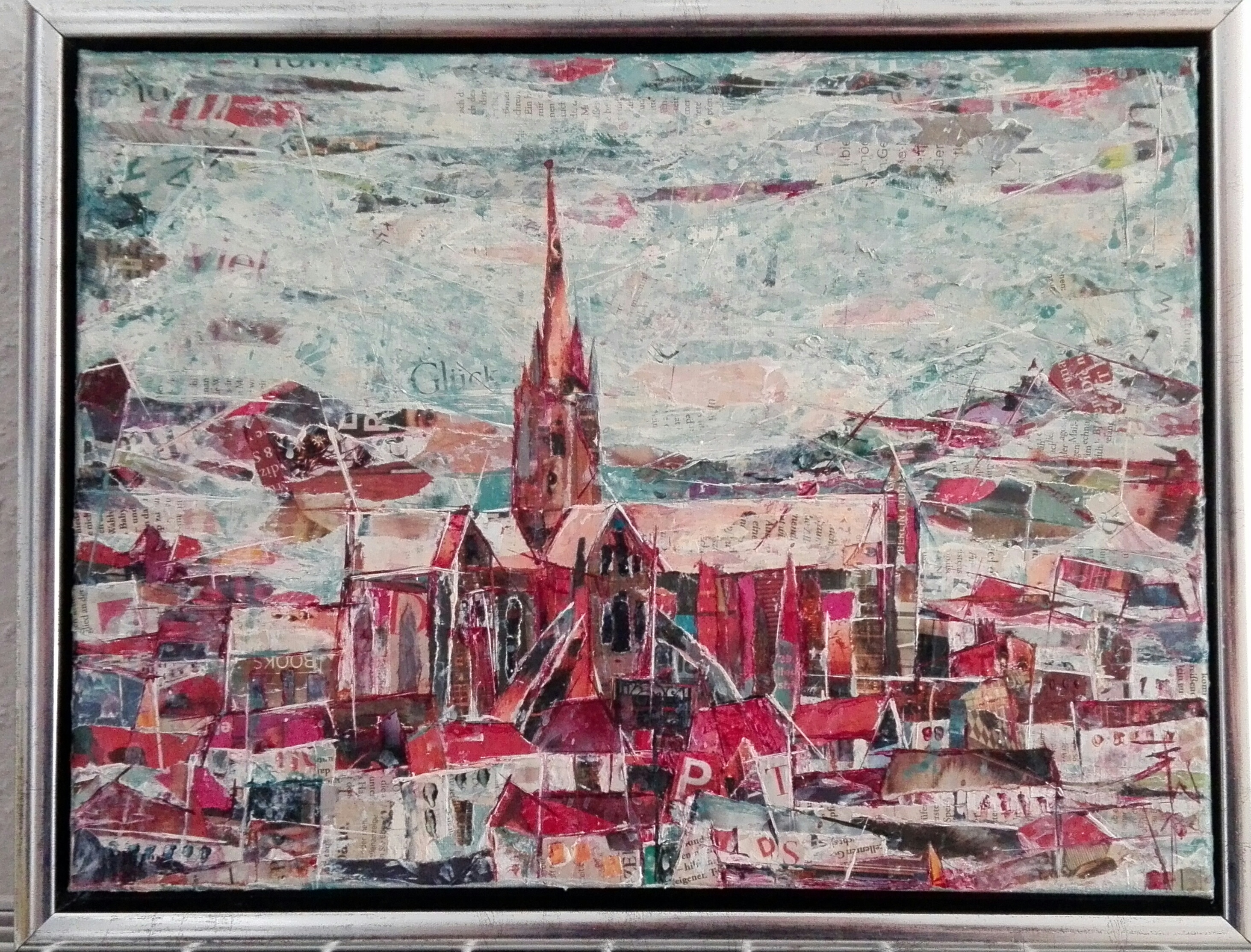 Painting of Salisbury Cathedral (2018) by German artist Stephan Wolf